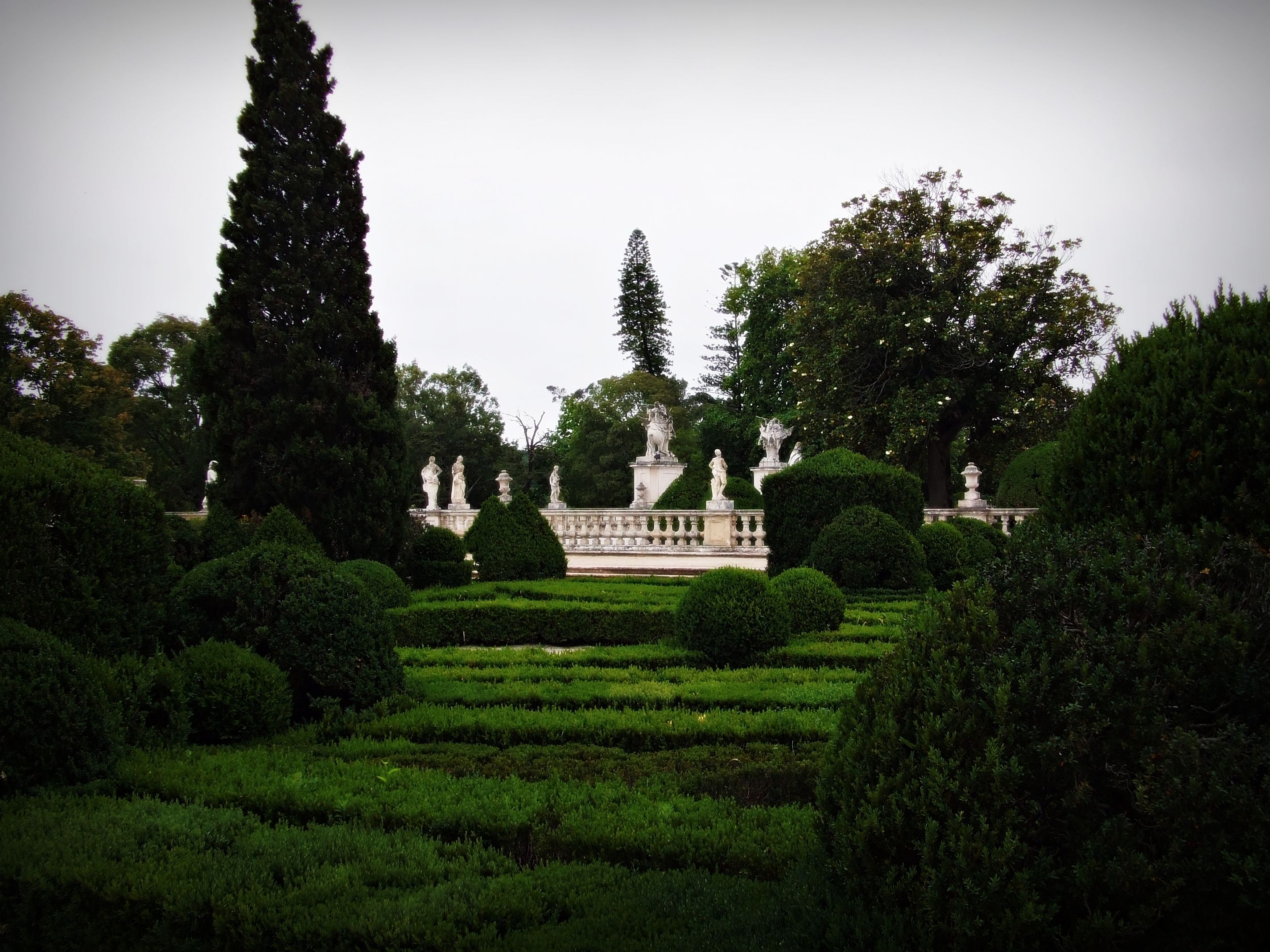 This file was uploaded for Wiki Loves Monuments in Portugal with the unique identifier 70181.